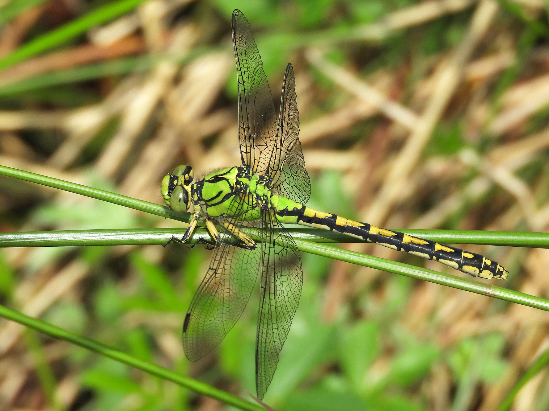 Female Green Snaketail, Ophiogomphus cecilia. Eastern Lower Saxony, Germany.